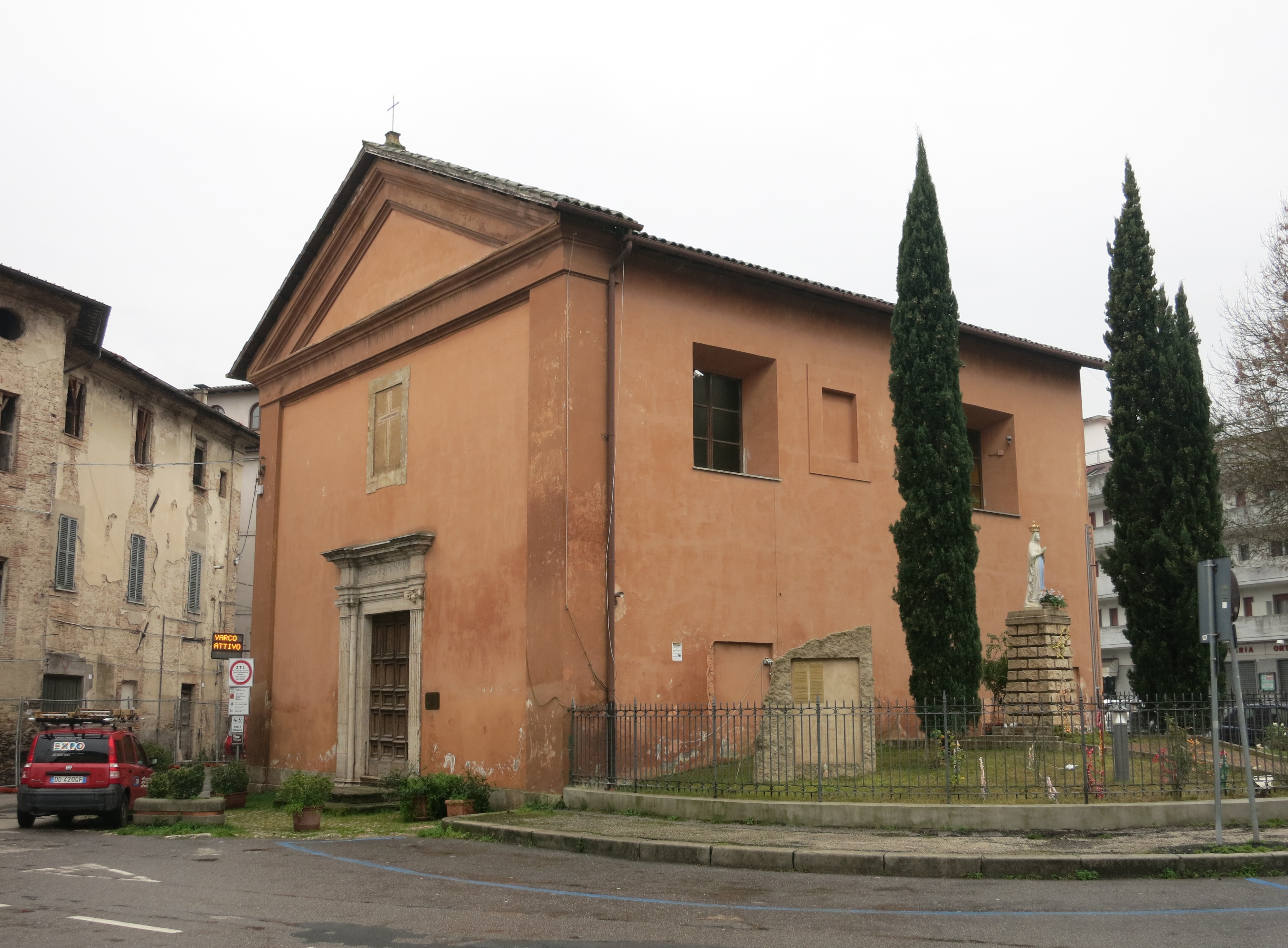 Saint Nicholas church - Rieti, Lazio, Italia